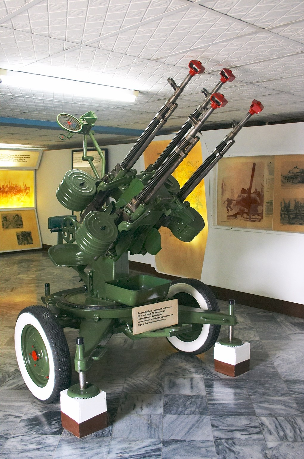 Czechoslovak-produced quadruple mounting of DShKM. Called model 1953 (vz. 53)